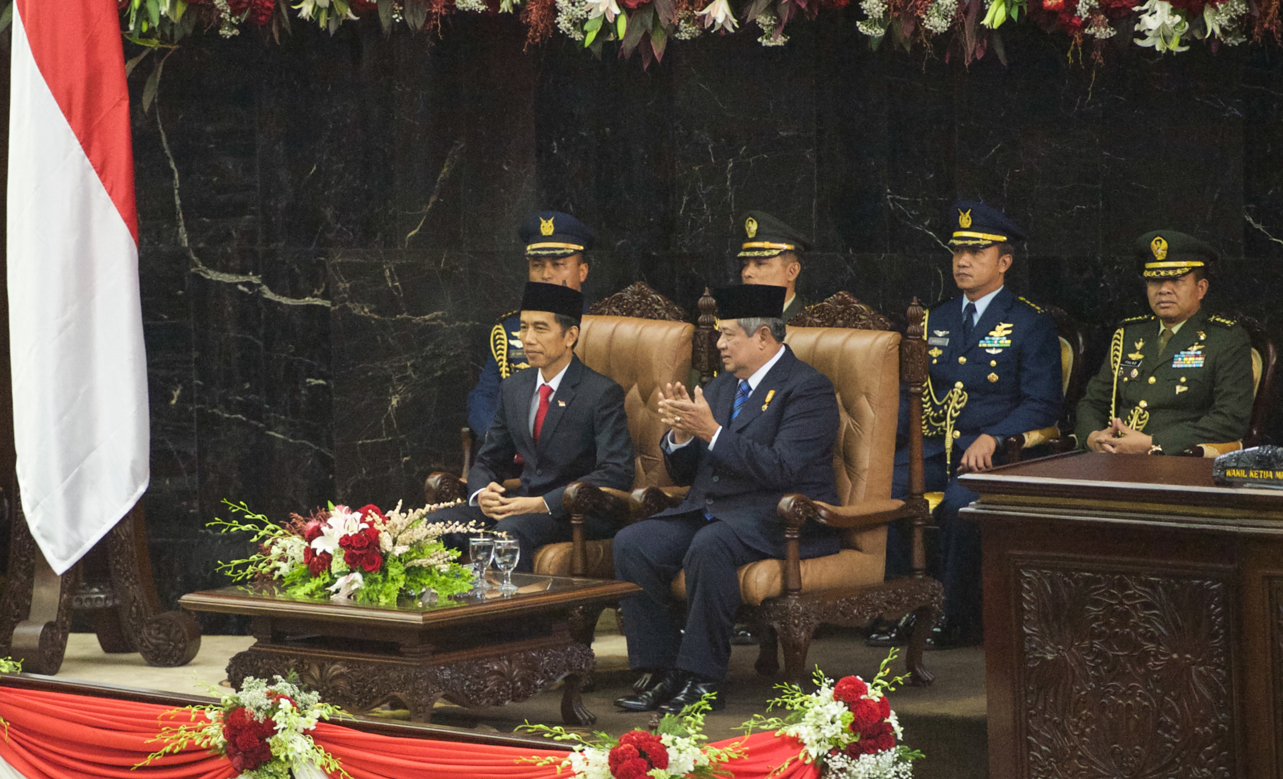 Indonesian President Joko Widodo sits in the seat previously occupied by former President Susilo Bambang Yudhoyono amid Windodo's inaugural ceremonies, during which U.S. Secretary of State John Kerry represented President Obama, in Jakarta, Indonesia, on October 20, 2014.